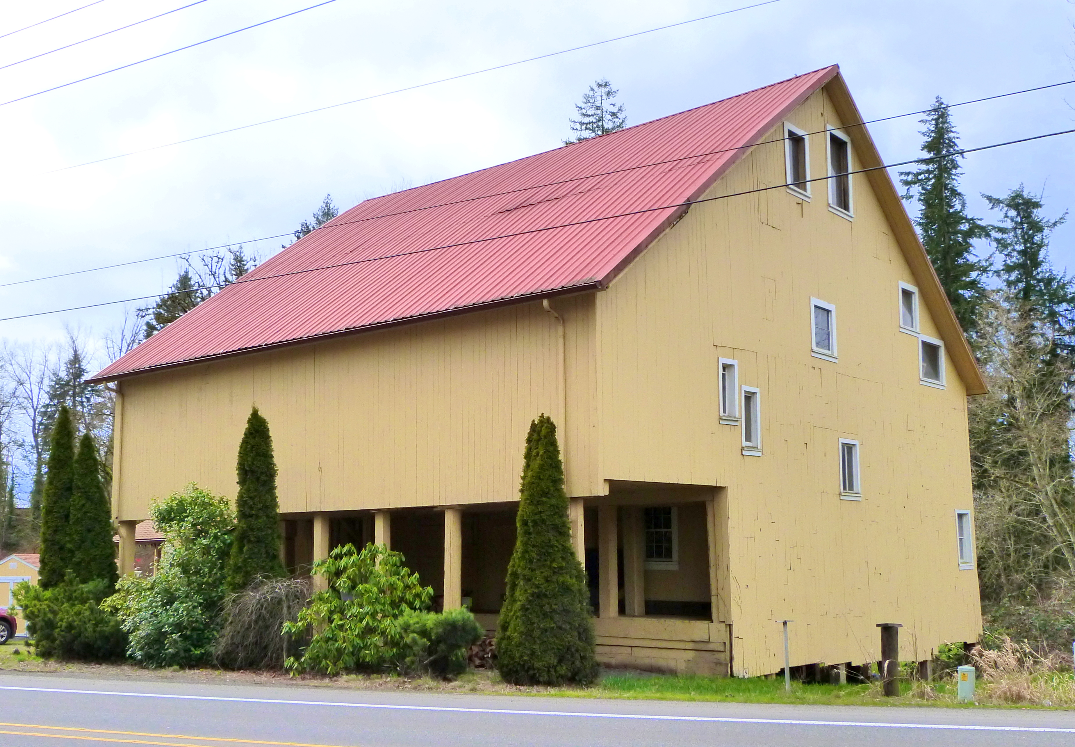 The historic Howard's Gristmill (built 1851), located at 26401 South Highway 213 in Mulino, Oregon, United States, is listed on the U.S. National Register of Historic Places.